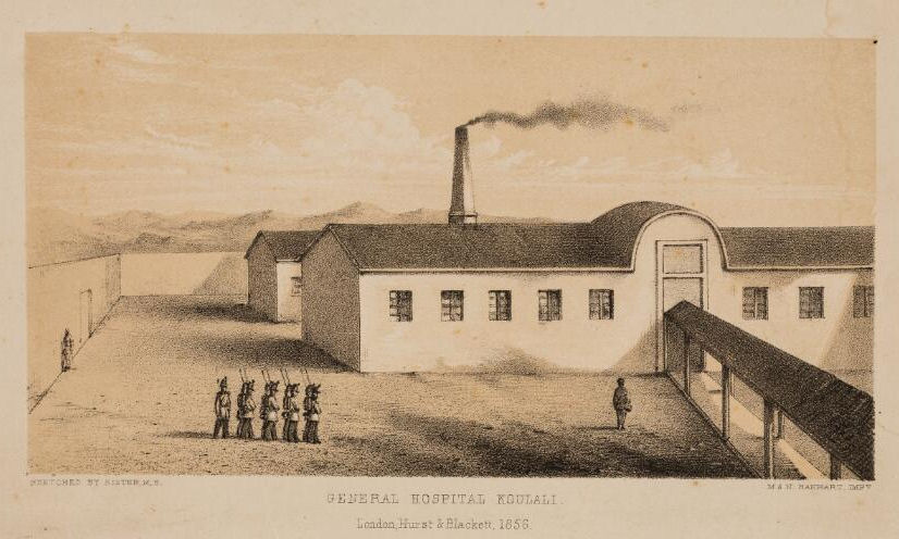 Scan of a lithograph of Koulali General Hospital during the Crimean War by Hurst & Blackett (1856)